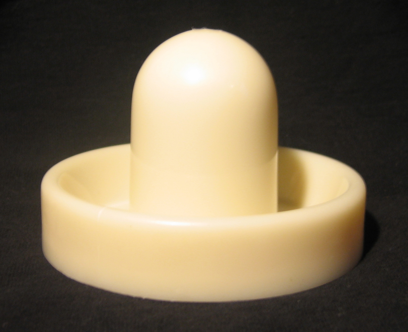 Photo taken by Andrew Flanagan